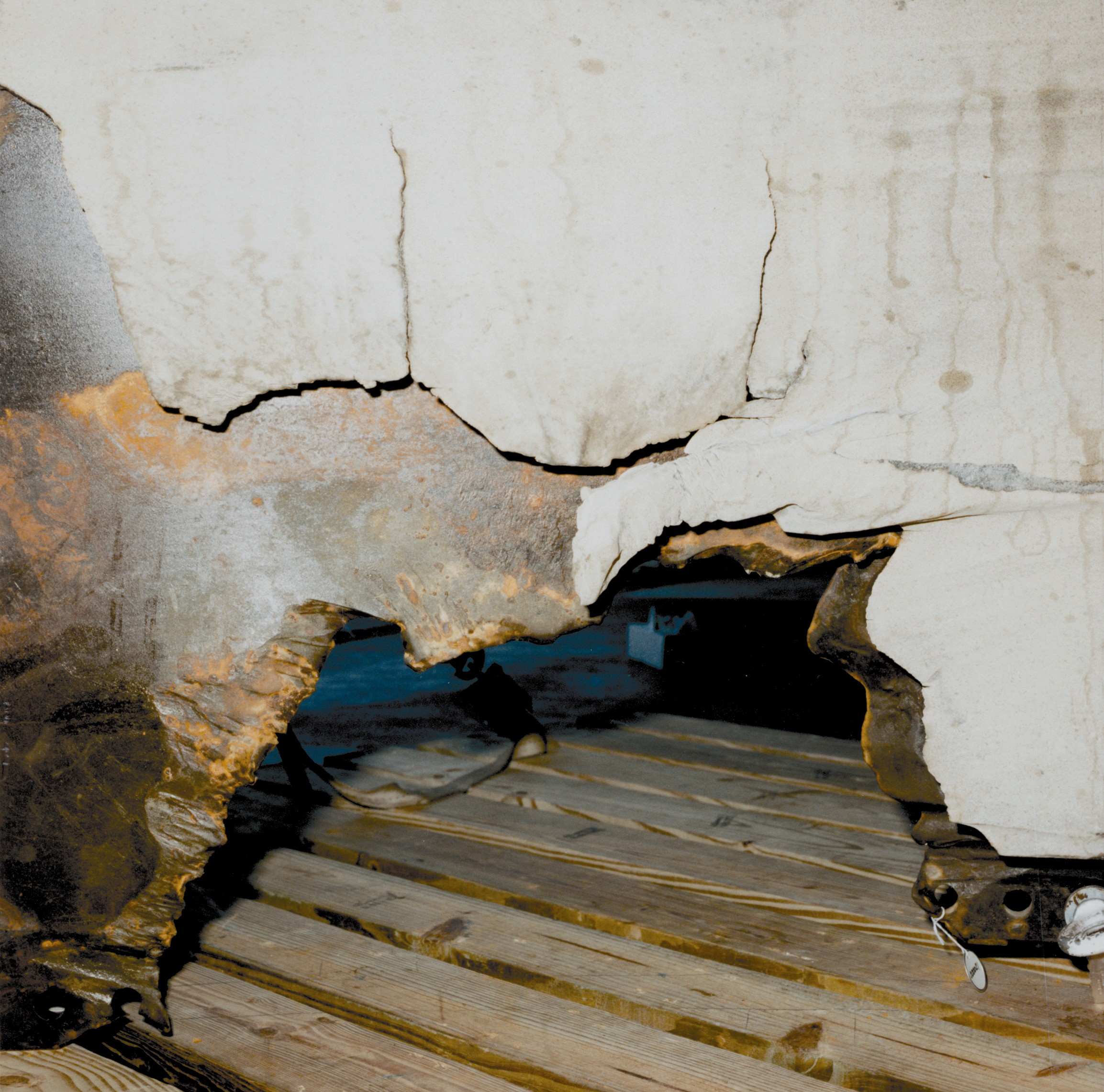 On January 28, 1986, the Space Shuttle Challenger and her seven-member crew were lost when a ruptured O-ring in the right Solid Rocket Booster caused an explosion soon after launch. Shown here is an interior view of the scorched hole in Space Shuttle Challenger's right Solid Rocket Motor. The tapered edges along the hole indicate the inside to outside path of the fire that lead to the accident. A propellant fire in the right Solid Rocket Booster (SRB) burned its way outward through the metal, breaching the liquid hydrogen tank and possibly separating the External Tank from the right SRB.